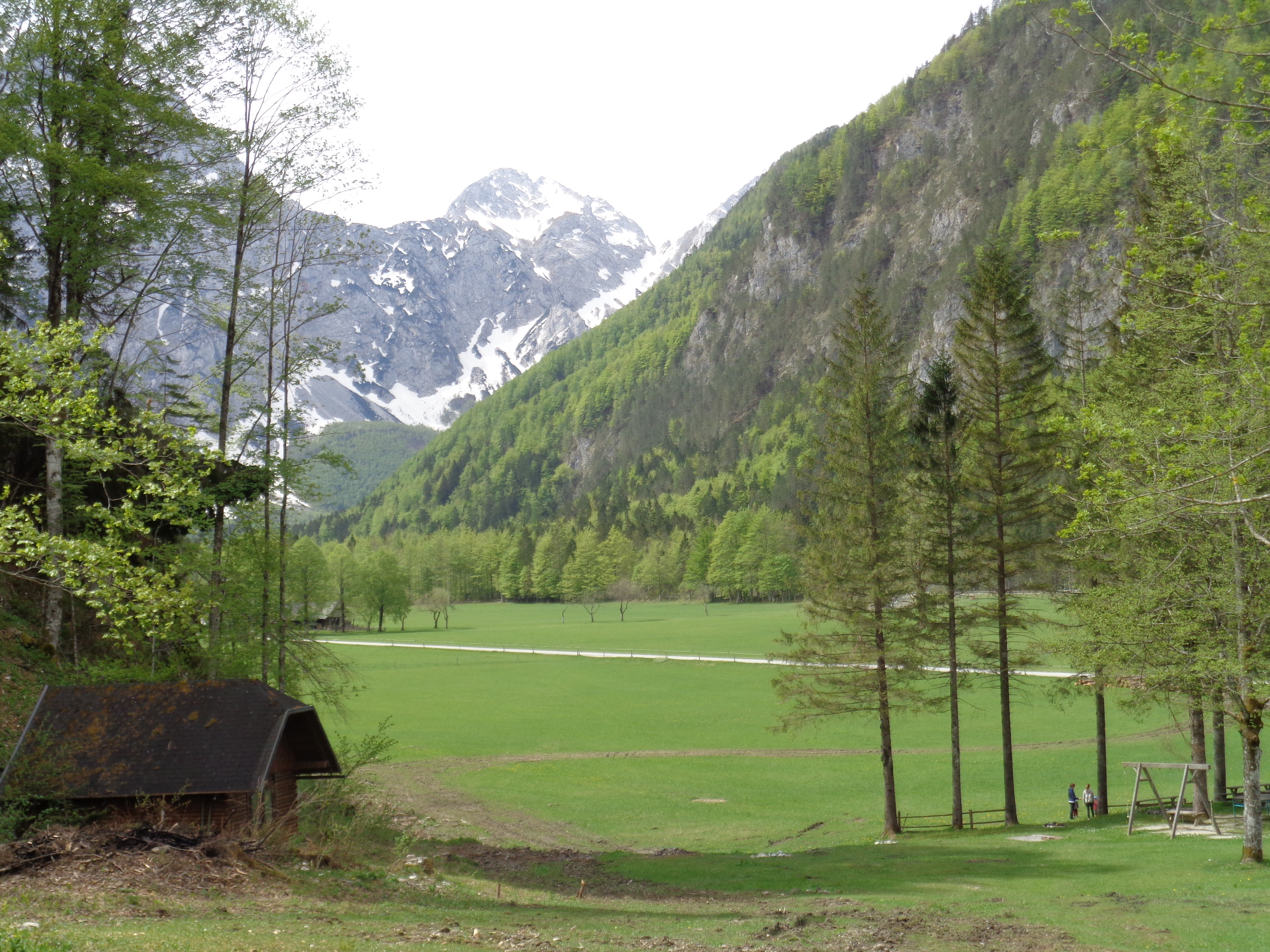 Logar Valley (Slovenia) - meadow and a log cabin